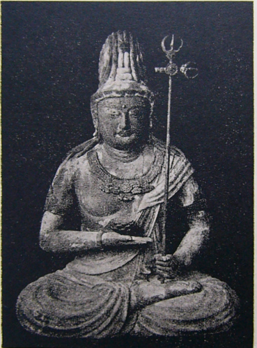 KOKUZO-BOSATSU(Maha Akasagarbha Boddhisatva) in Shingoji, Kyoto, Japan, about 94cm BODY height, about ACE 830-850